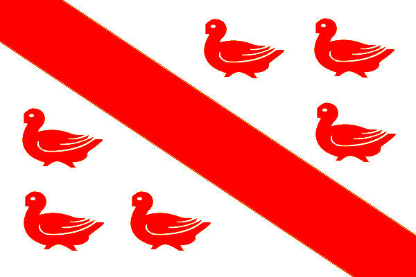 Flag of Tinlot